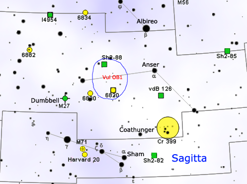 Map of Vulpecula OB1